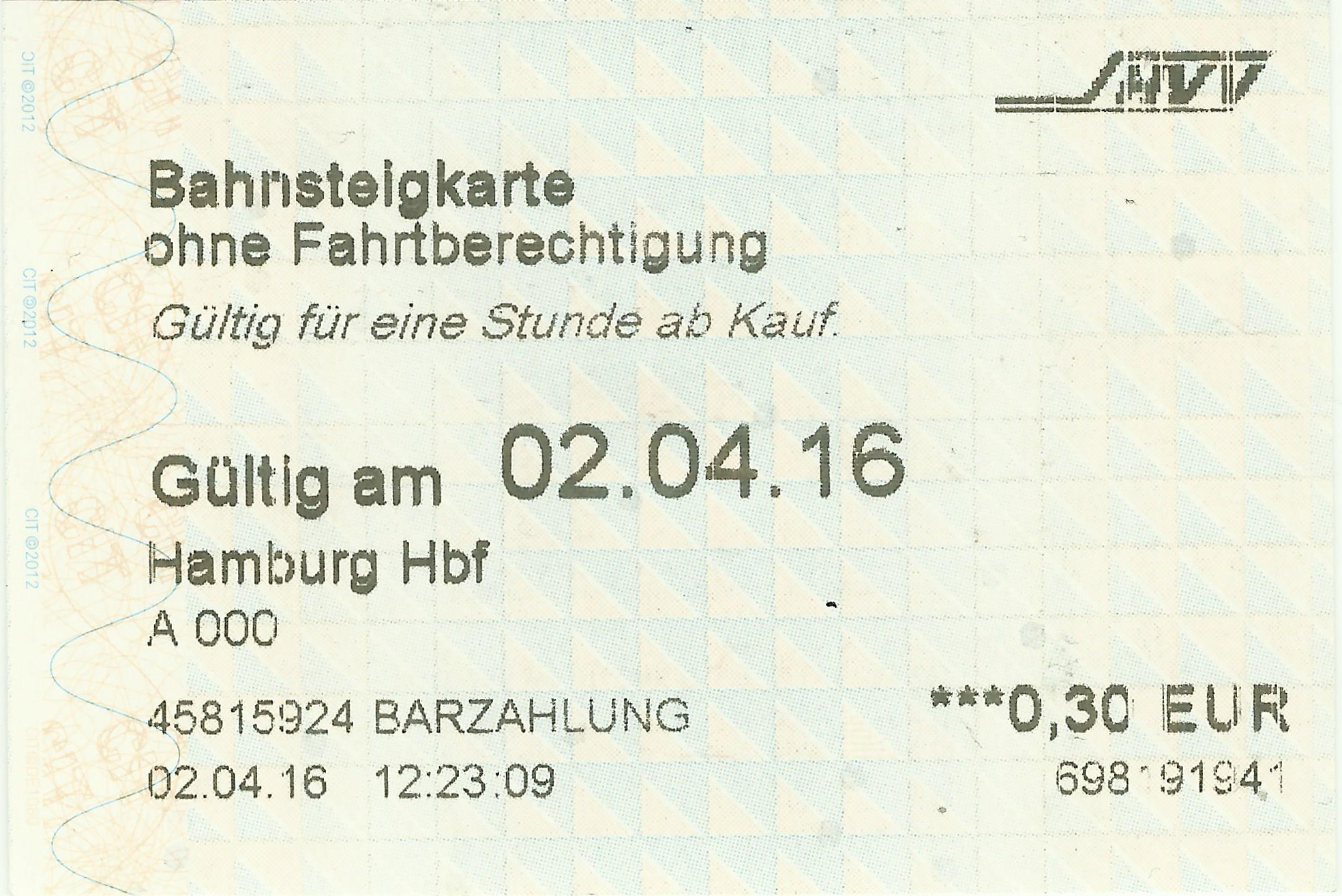 A platform ticket for Hamburg main station, issued on 2 March 2016